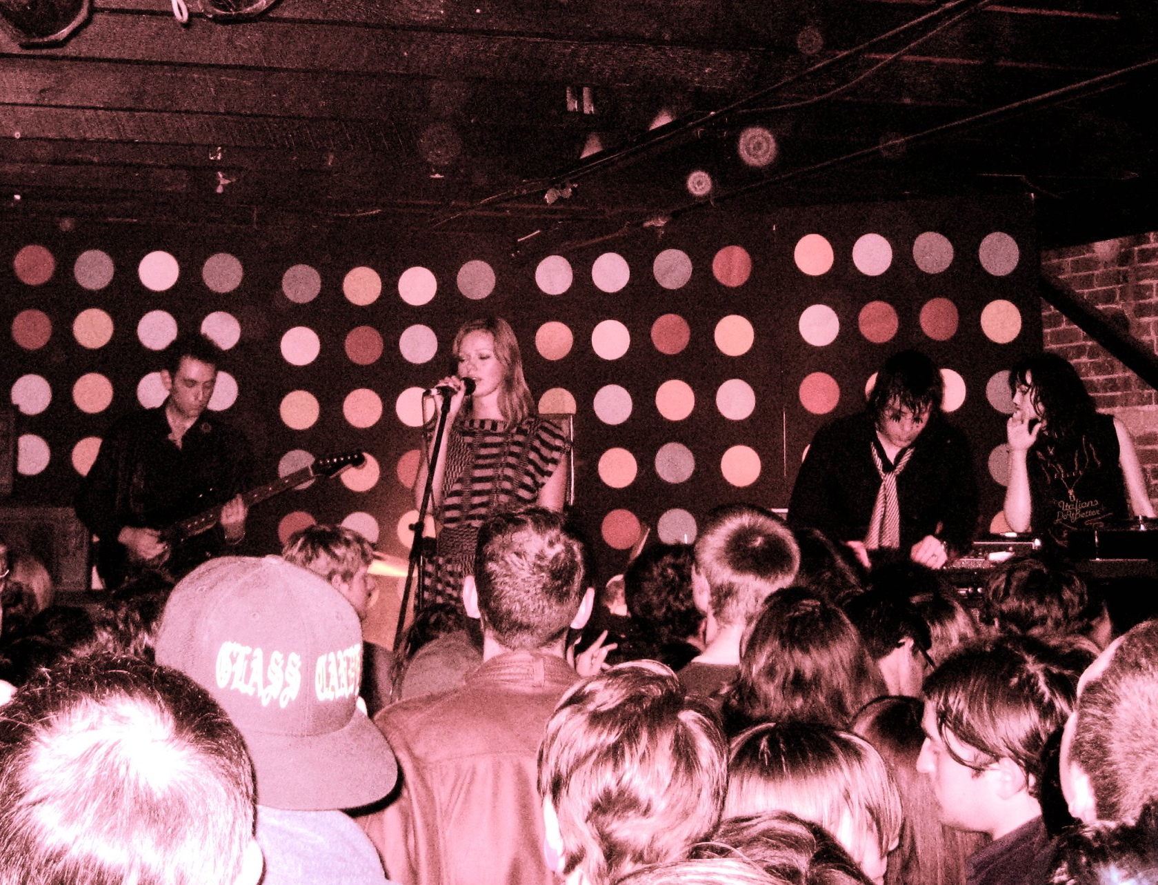 Chromatics performing live at Rotture in Portland, Oregon, October 1, 2010.